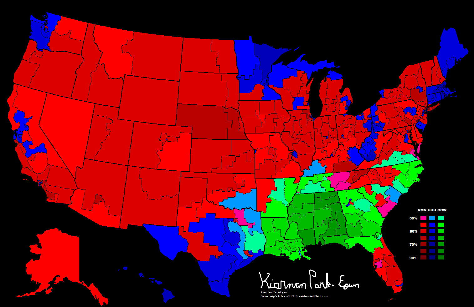 This map shows the 1968 Presidential Results by 1968 Congressional Districts (except for New York, which uses 1970 districts in this case, due to availability issues)